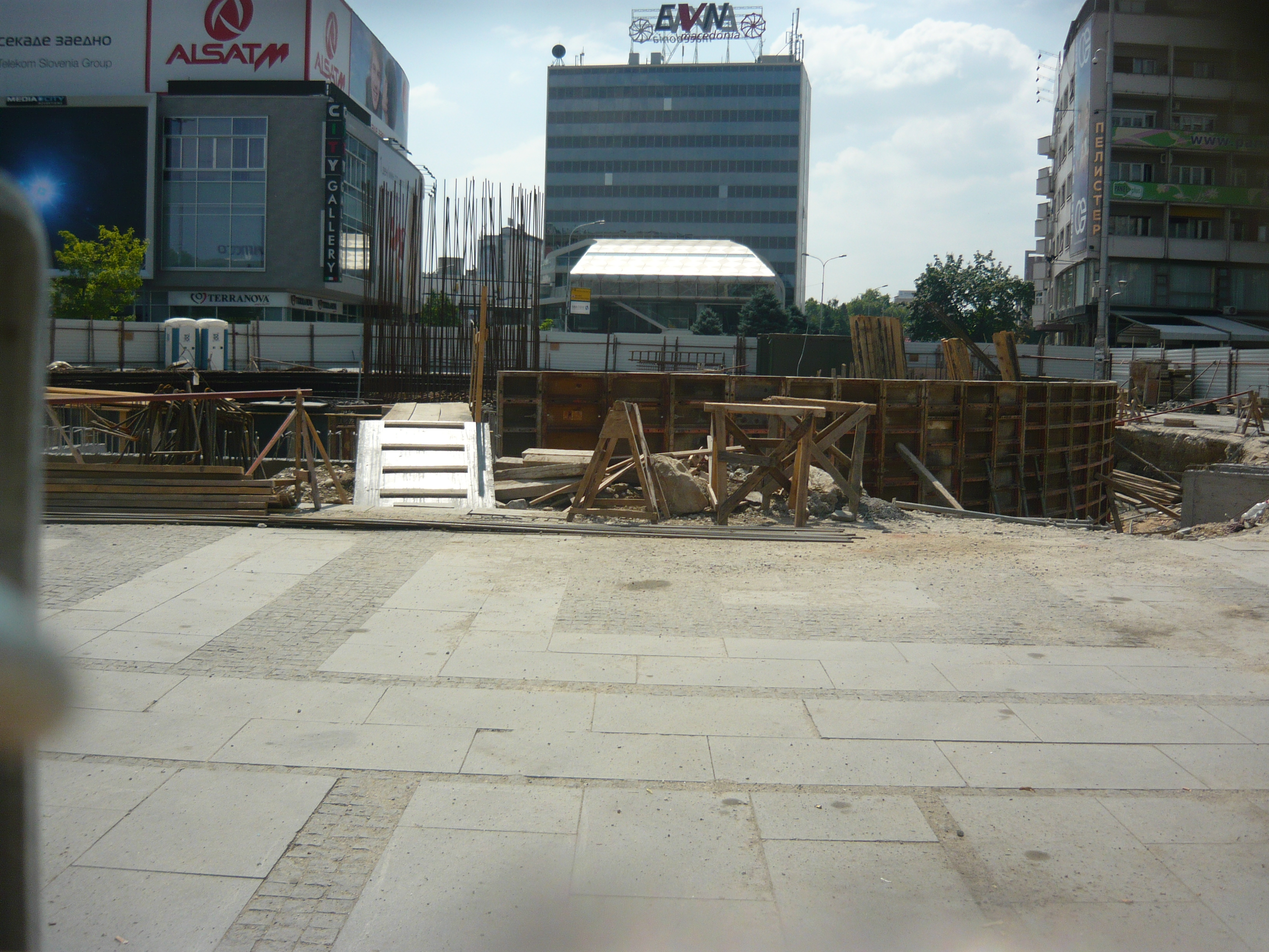 Construction of Alexander the Great monument with fountain on Macedonia Square, Skopje, Aug 2010